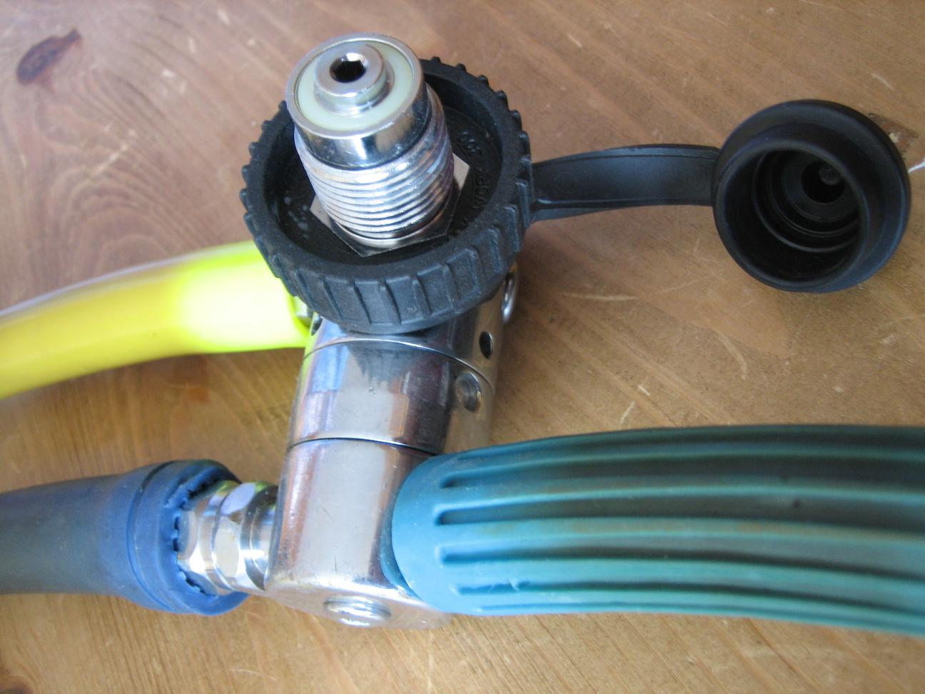 Diving regulator first stage with a DIN cylinder attachment, 2 medium pressure hoses and a high pressure hose